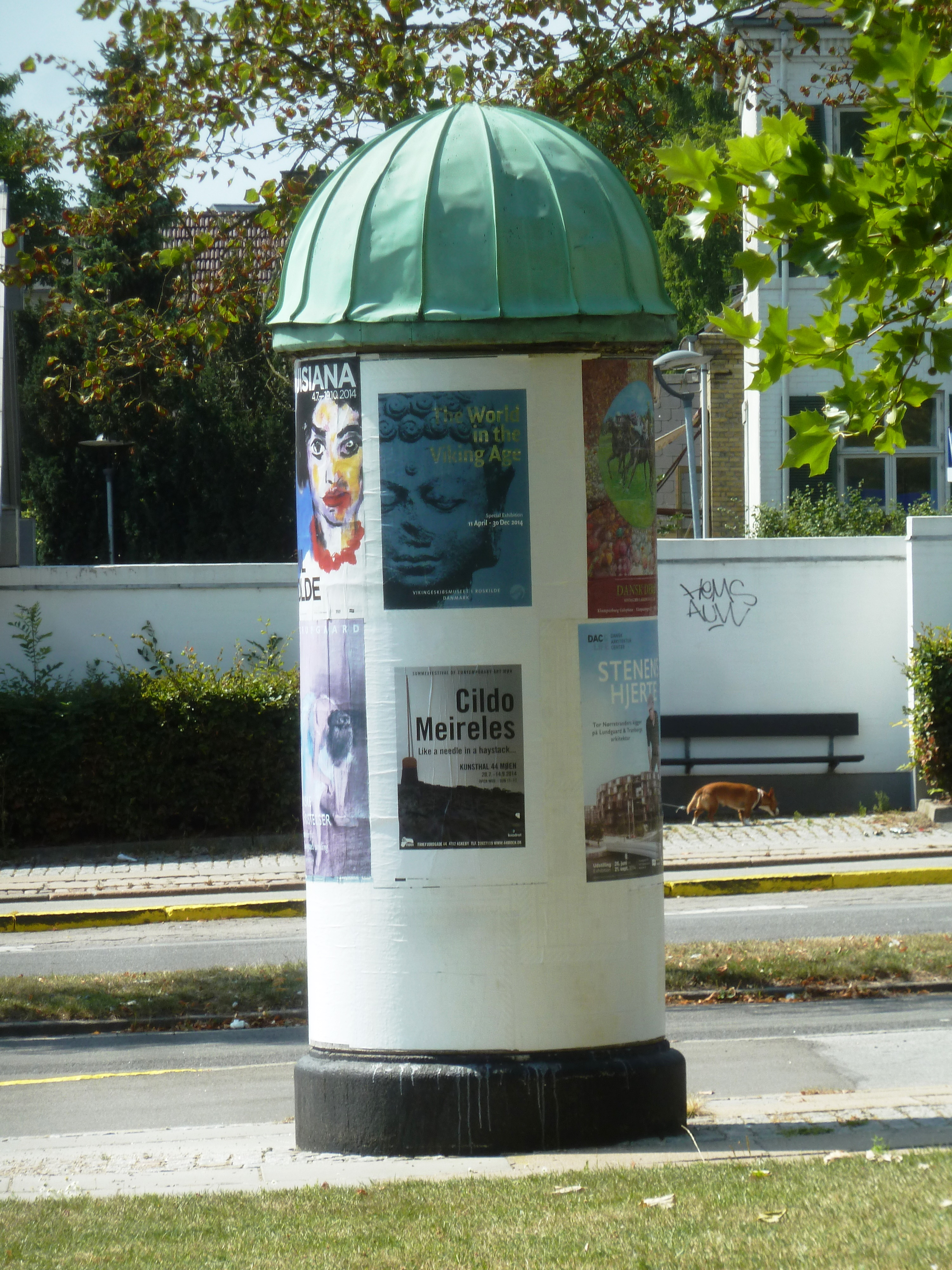 Knud V. Engelhardt-designed advertising column in Gentofte Municipality, Denmark